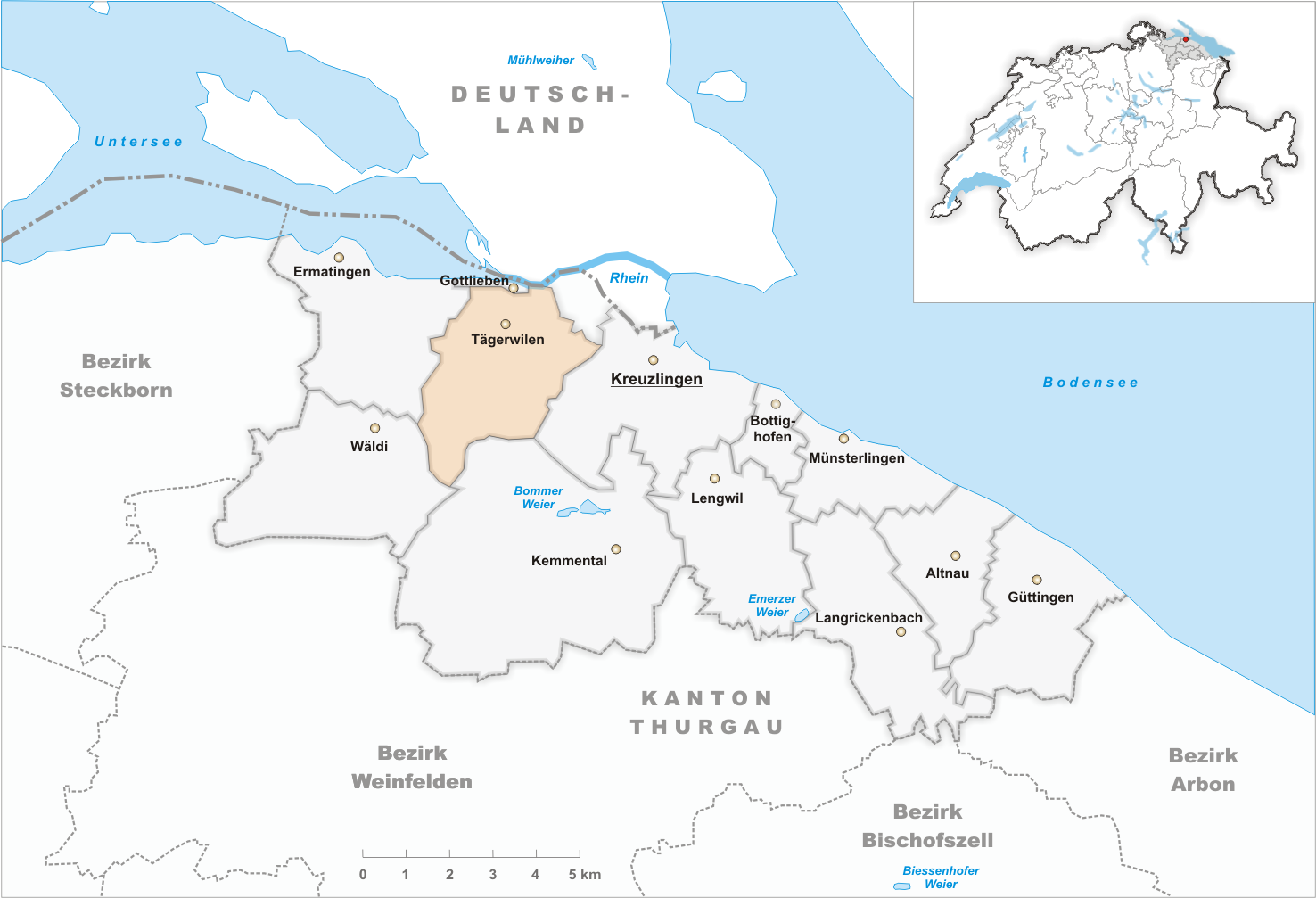 Municipality Tägerwilen